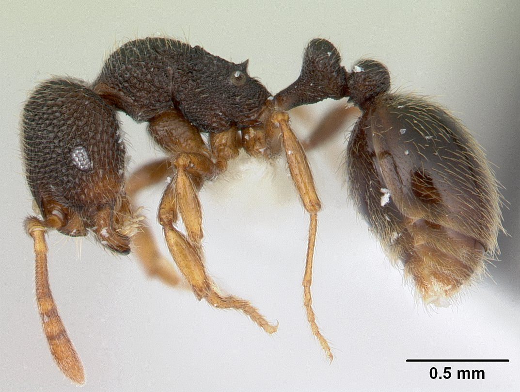 Profile view of ant Rogeria stigmatica specimen casent0178447.